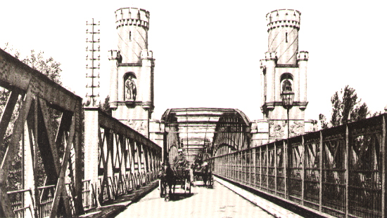 Torun, Poland, bridge over Vistula 1920.